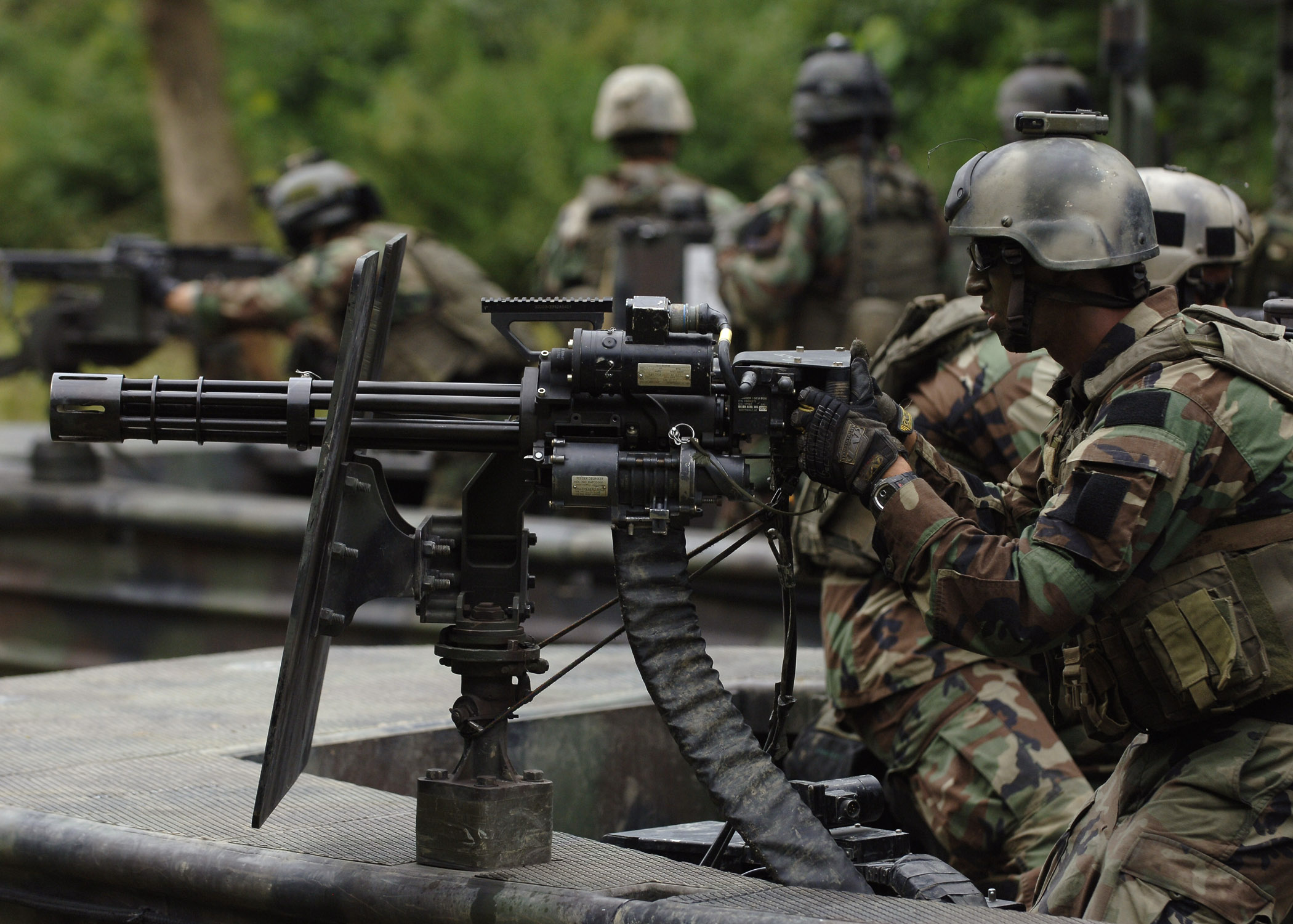 FT. KNOX, Ky. (Aug. 25, 2007) - A special warfare combatant-craft crewman (SWCC) mans his GAU-17 minigun during live-fire patrol training along the Salt River in northern Kentucky. SWCCs attached to Special Boat Team 22 (SBT-22) from Stennis, Miss., employ the Special Operations Craft Riverine (SOC-R), which is specifically designed for the clandestine insertion and extraction of U.S. Navy SEALs and other special operations forces along shallow waterways and open water environments.